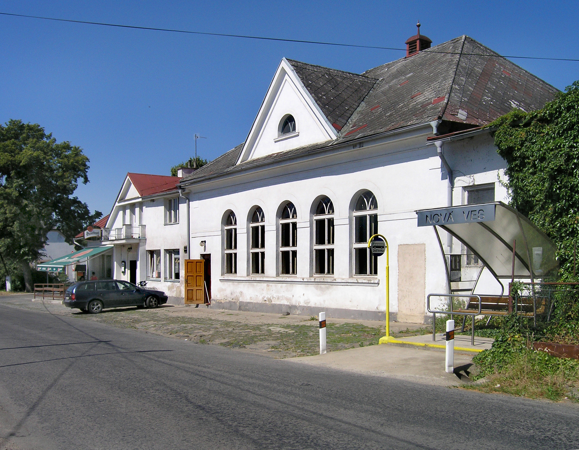 Restaurant in Nová Ves u Bakova, Czech Republic